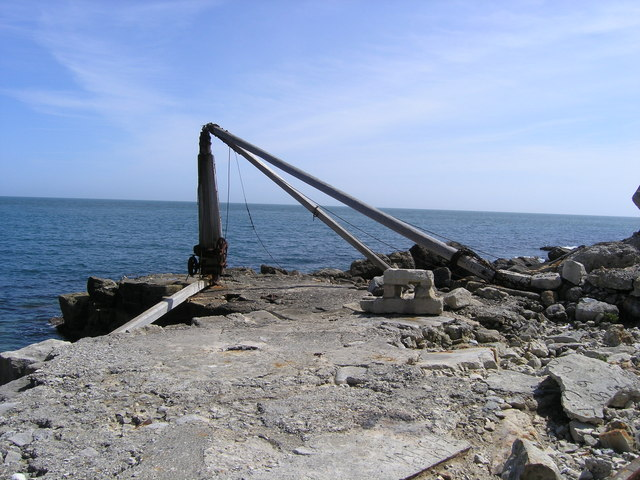 The Boat Hoist on Durdle Pier A very striking feature, especially on a perfect day for a walk to Portland Bill.